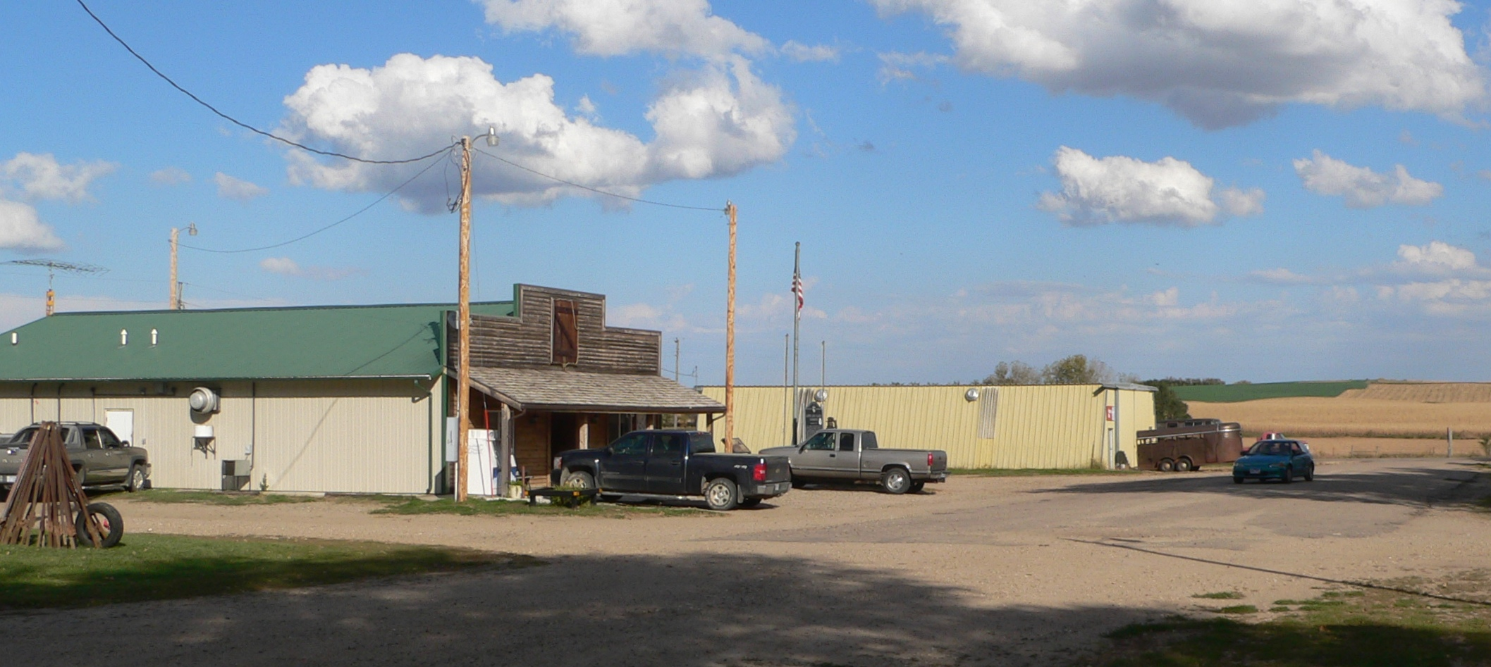 Downtown Lindy, Nebraska; looking northeastward.